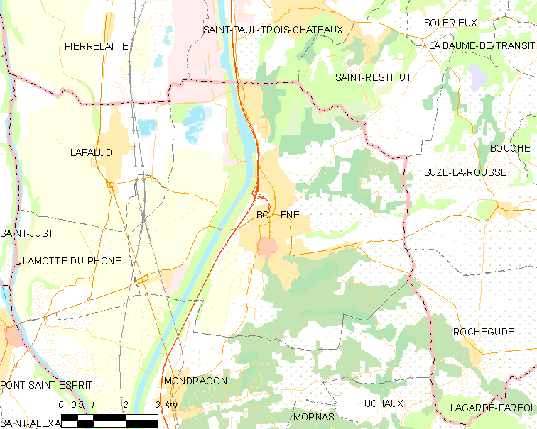 Map of French municipality Bollène